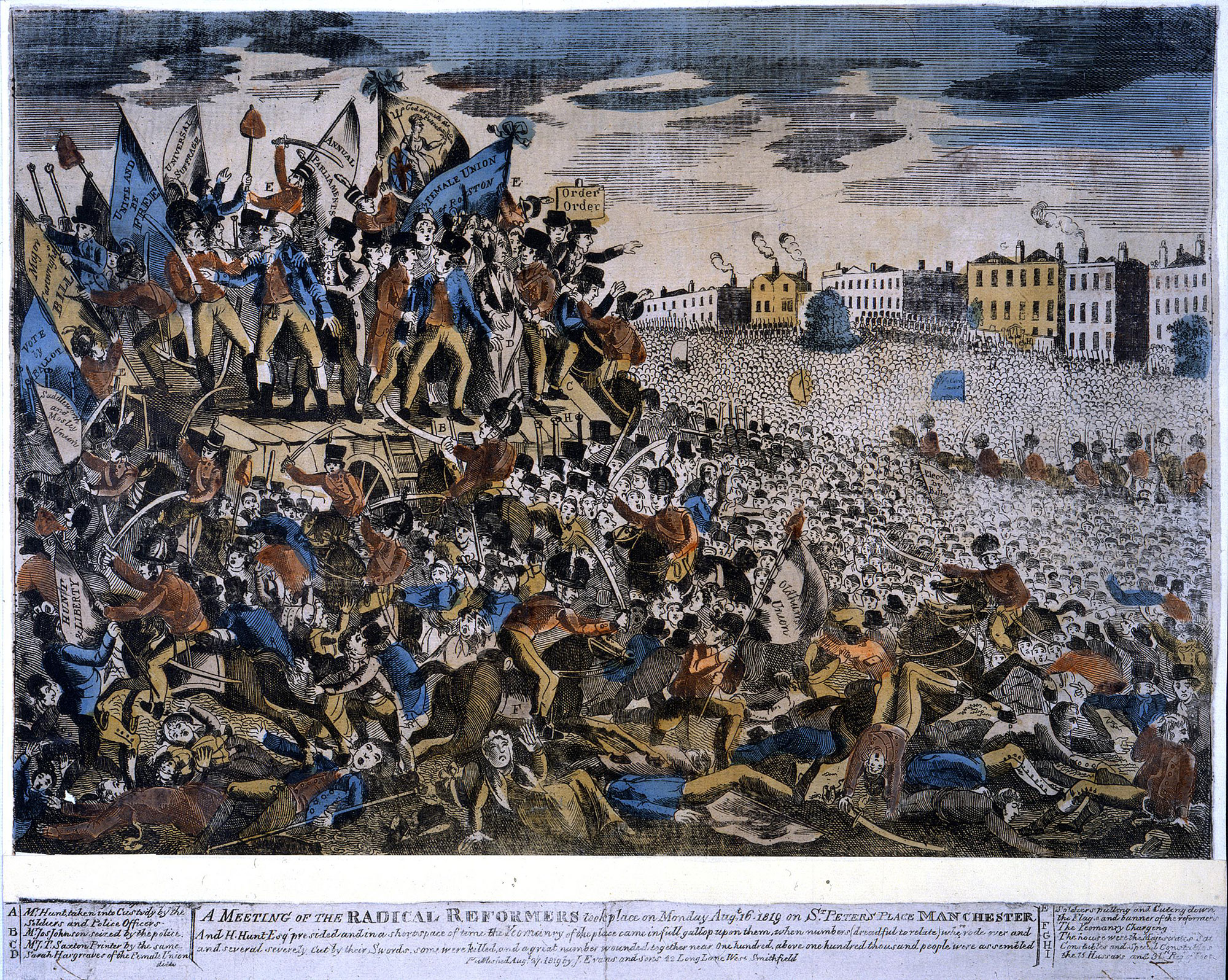 Dreadful Scene at Manchester Meeting of Reformers 16 August 1819: A print depicting the Peterloo Massacre at Manchester, England.